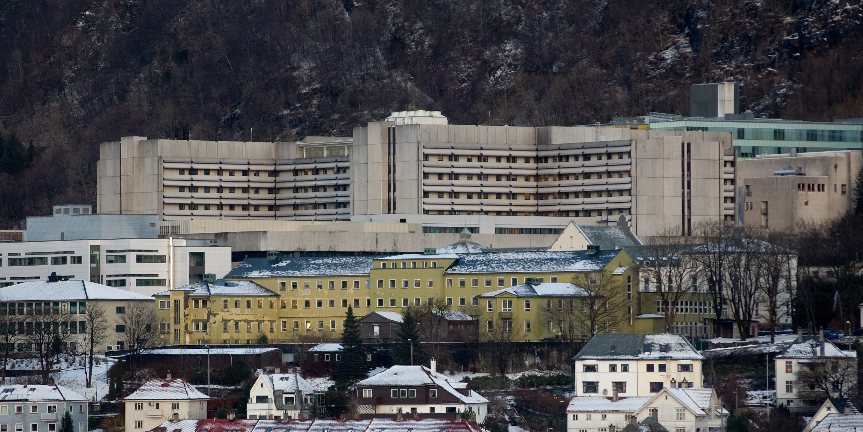 Haukeland University Hospital seen from the south.